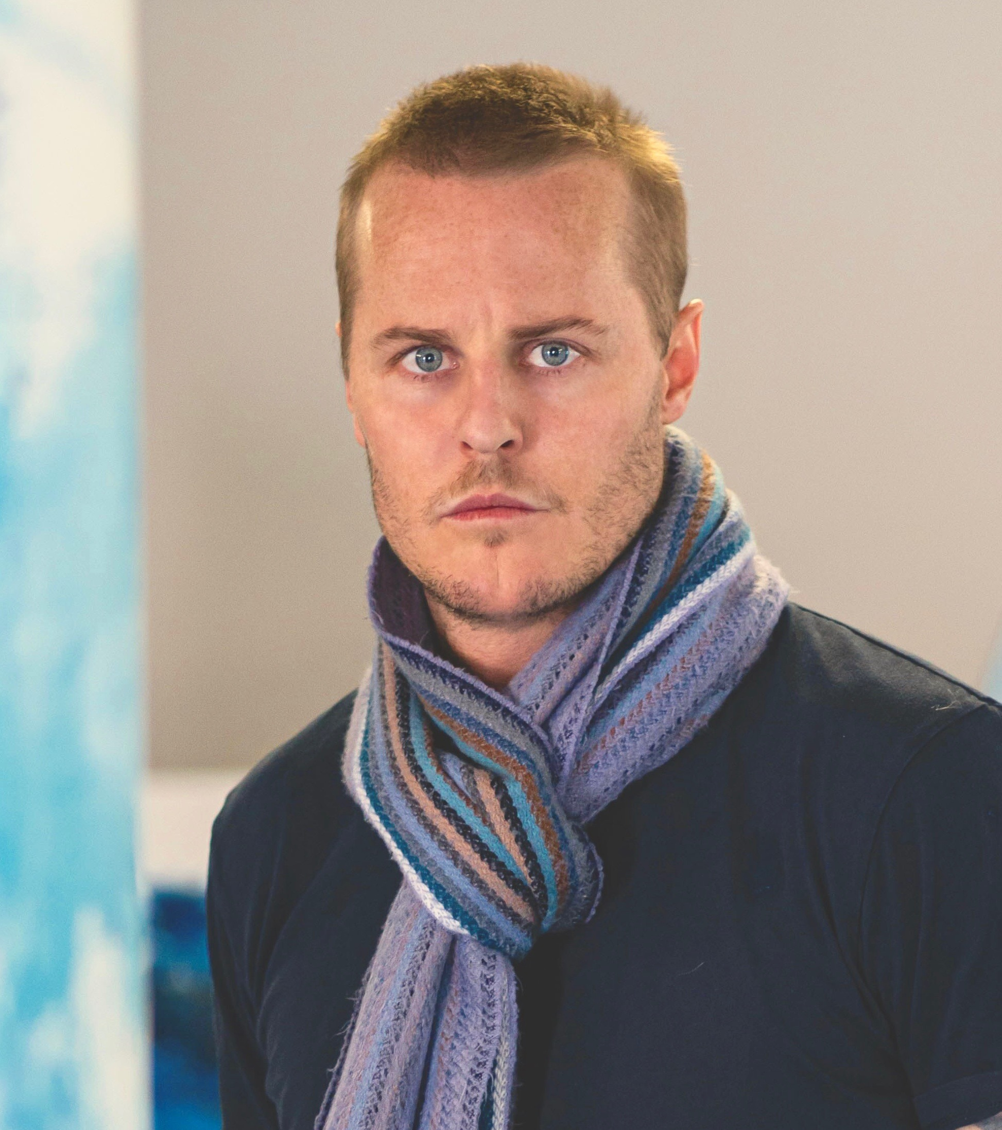 Conor Mccreedy inside his Swiss studio during and interview for Forbes